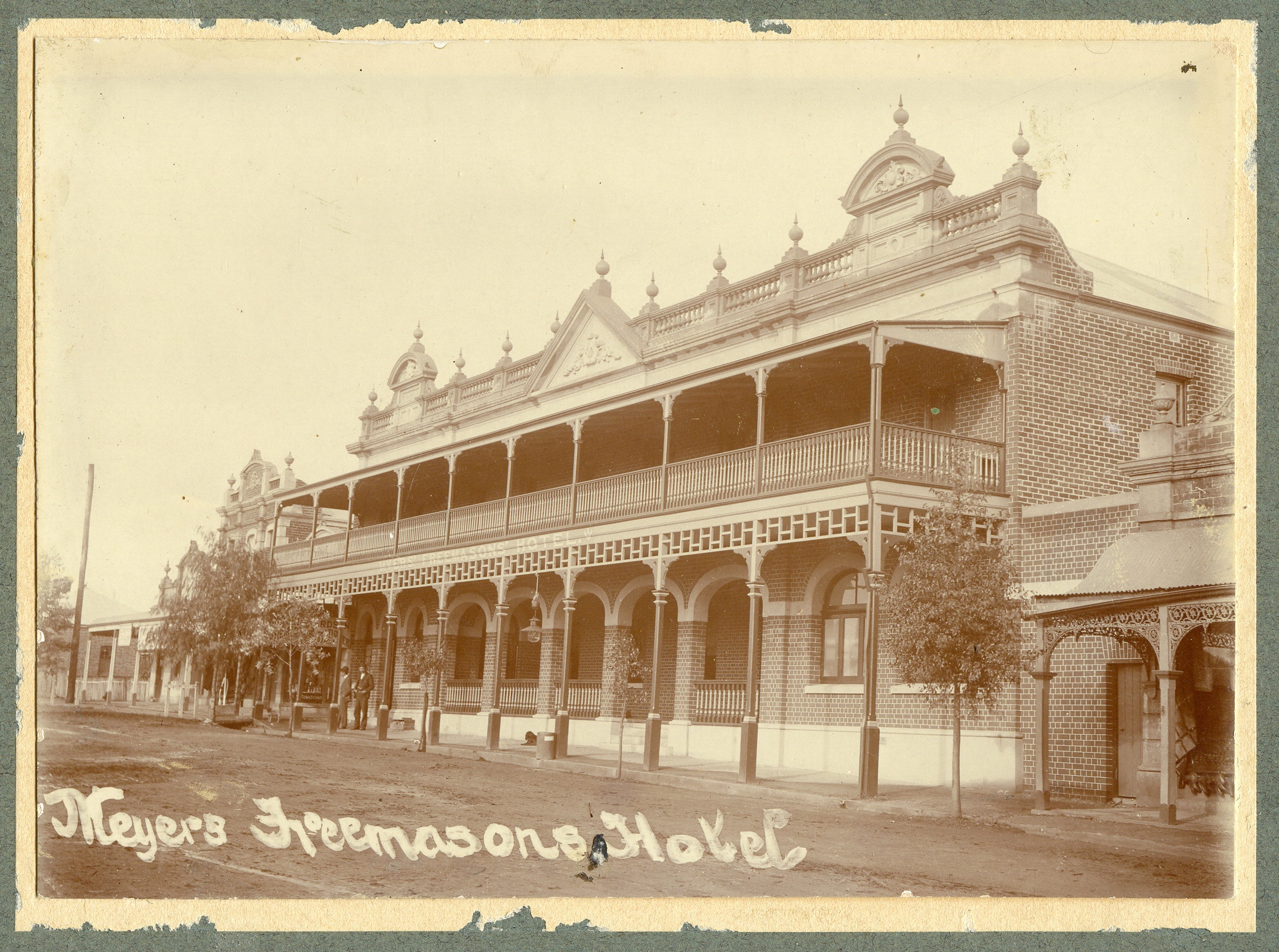 Photograph of the Freemasons' Hotel (originally named the Newcastle Hotel) on Stirling Terrace in the township now known as Toodyay, Western Australia. The handwritten caption dates the photograph to the tenure of proprietor EJ Meyer, approximately between 1904 and 1910